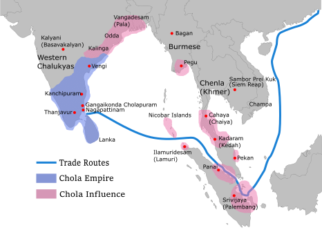 Map showing the extent of the Chola empire during Rajendra Chola I (c. 1030 CE)